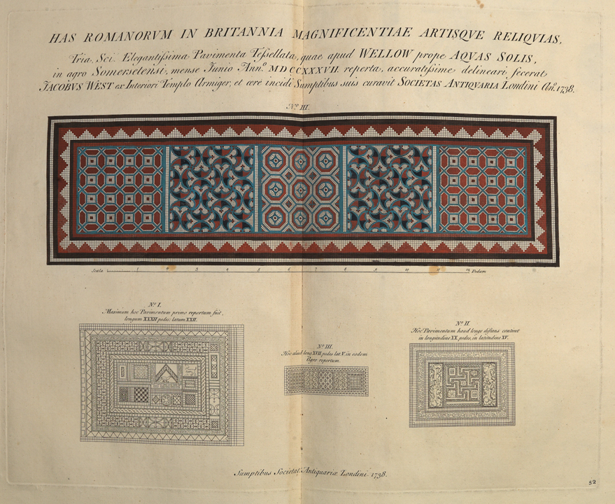 double page illustration from a series of roman mosaic